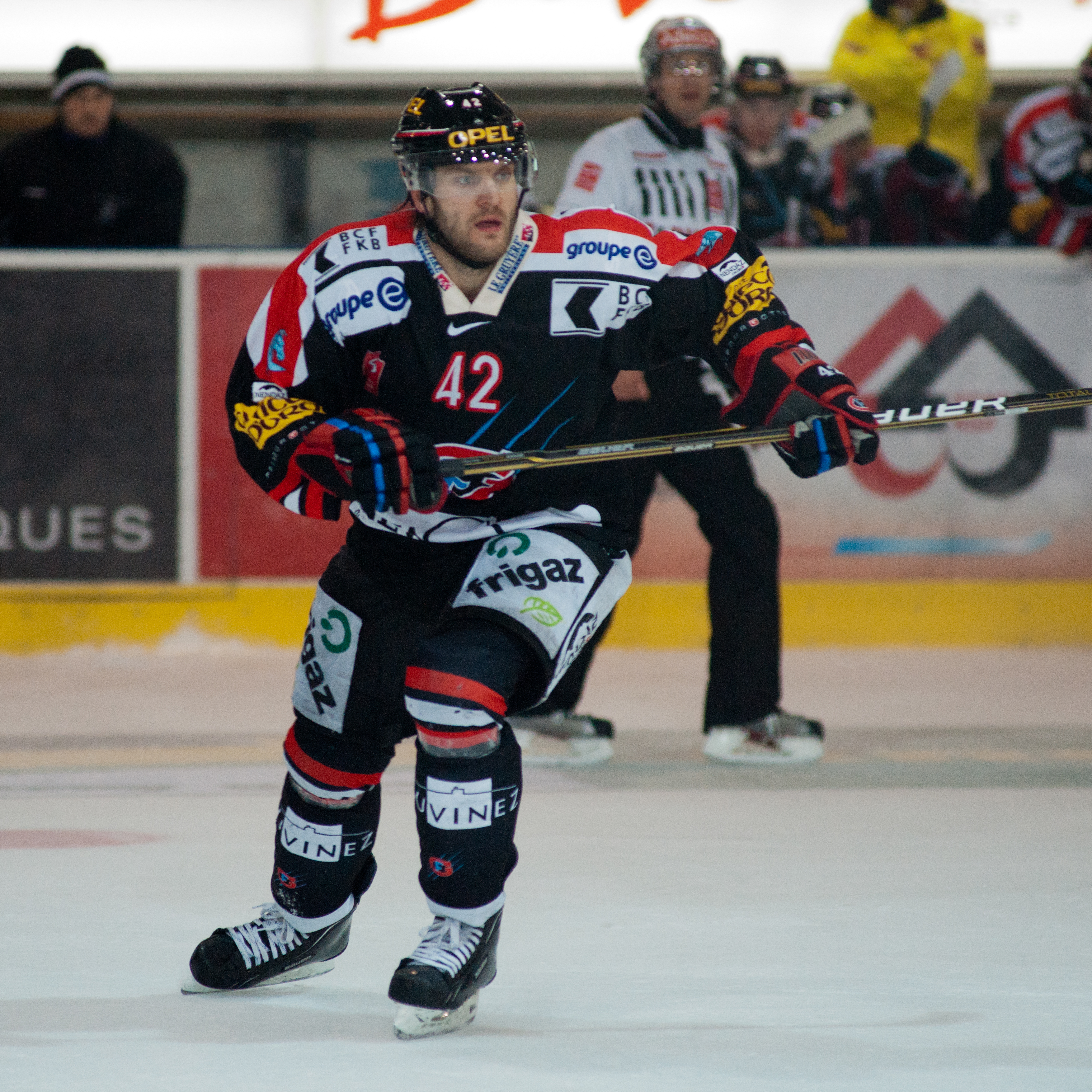 The making of this document was supported by Wikimedia CH. (Submit your project!) For all the files concerned, please see the category Supported by Wikimedia CH. Fribourg-Gotteron vs. HC Bienne, 25.11.2011